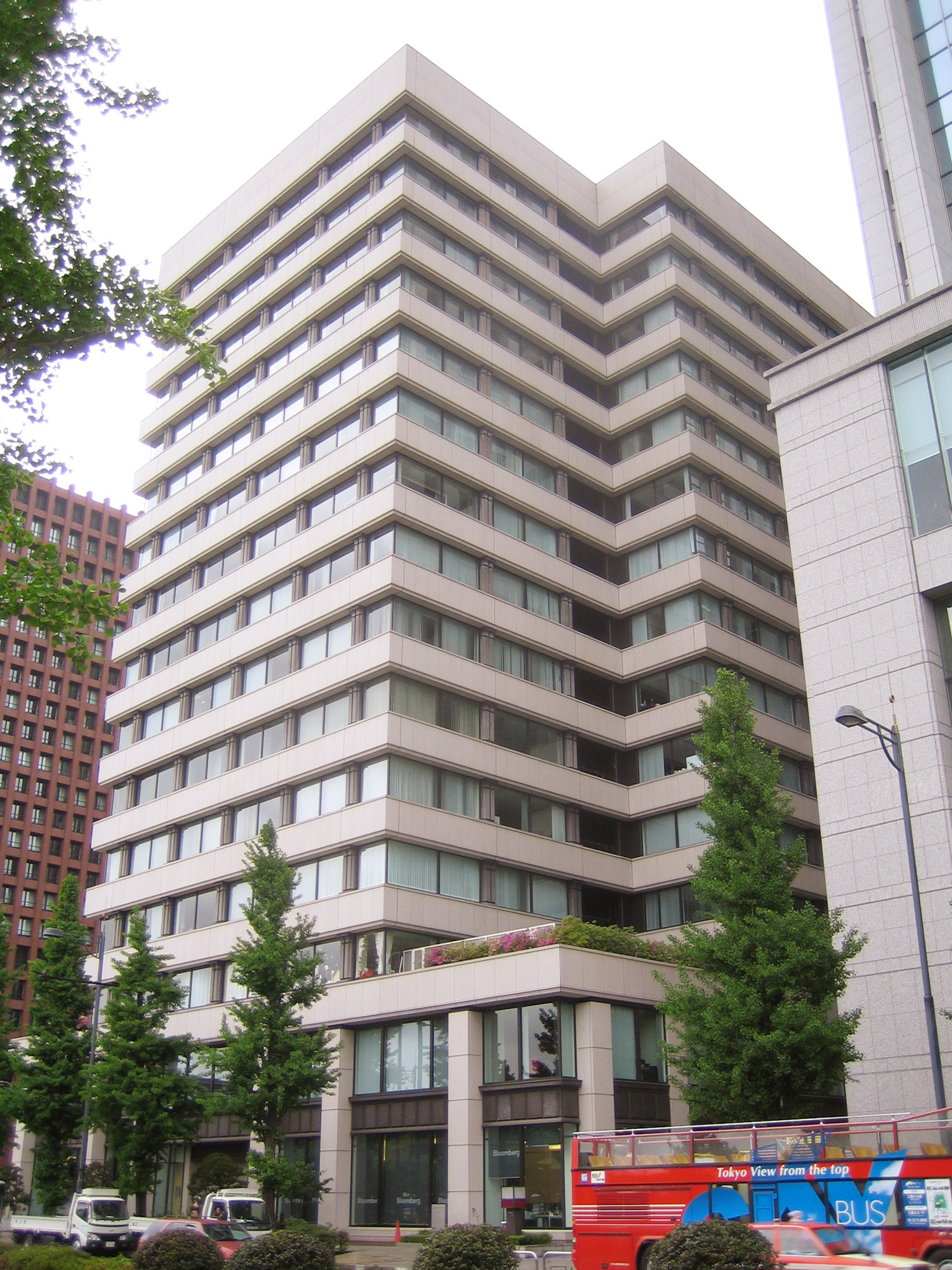 head office of NYK Line (日本郵船), at Marunouchi, Chiyoda, Tokyo, Japan